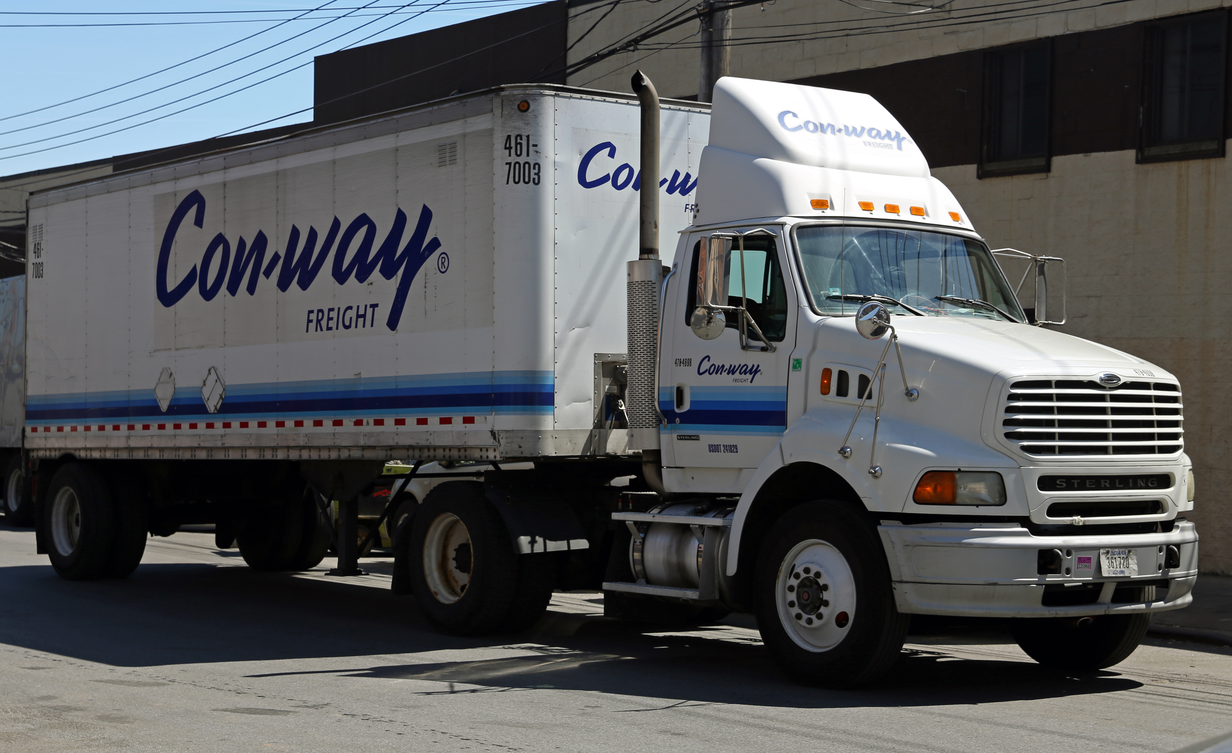 Sterling A-Line tractor, belonging to Con-Way. Con-Way seems to get their own license plates in Indiana!